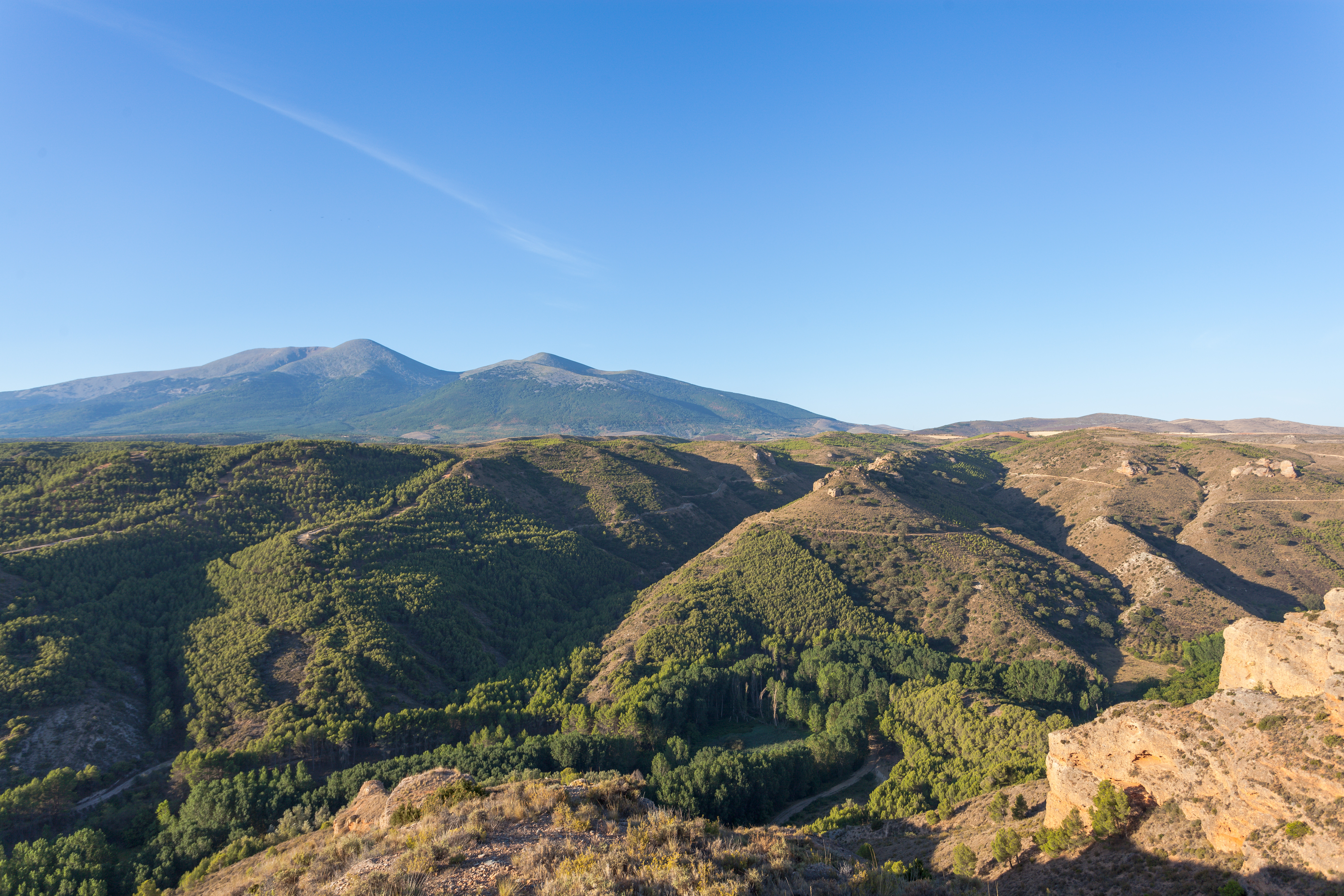 Moncayo, Ágreda, Spain